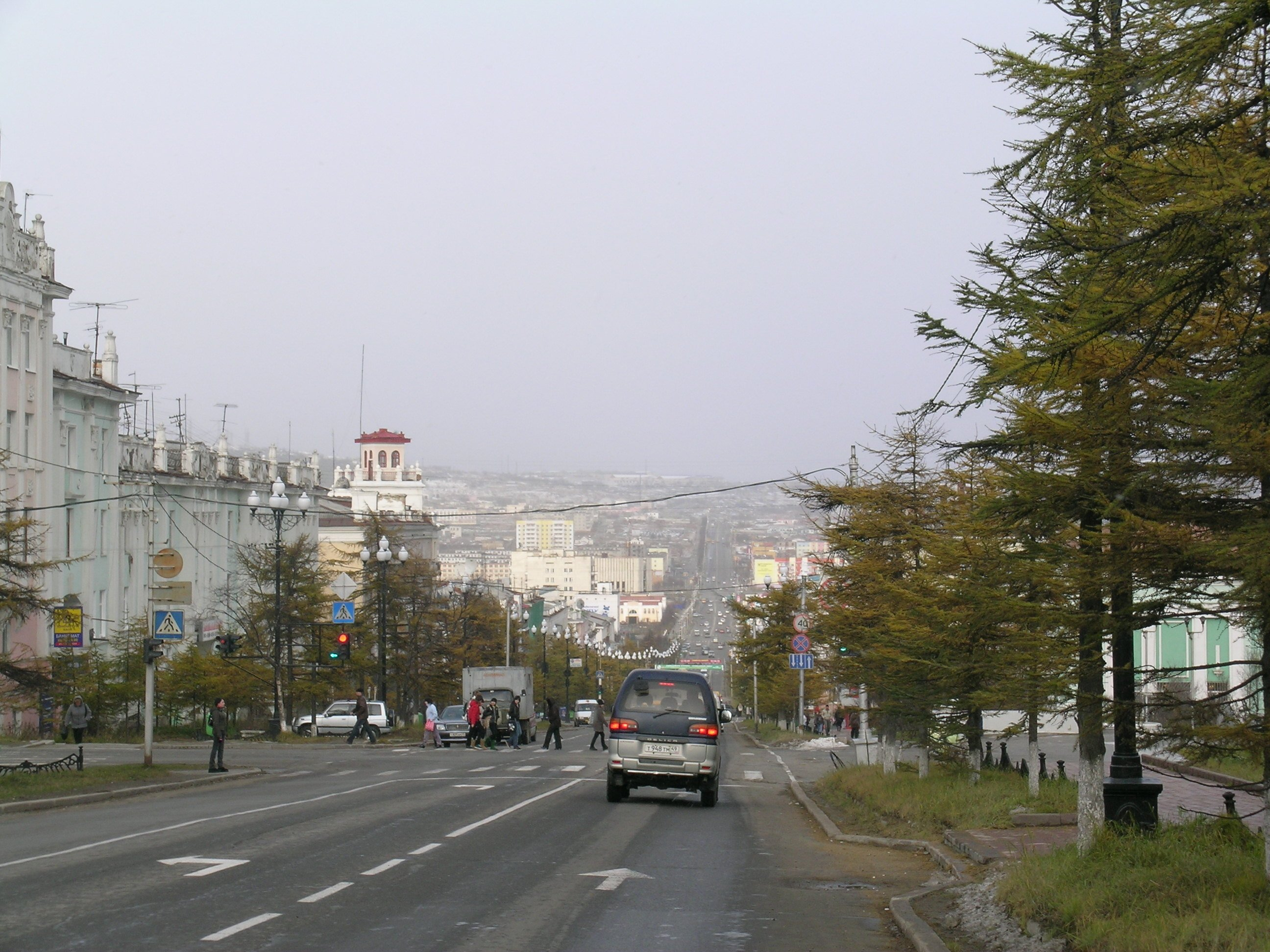 Lenin Street, the main road in Magadan